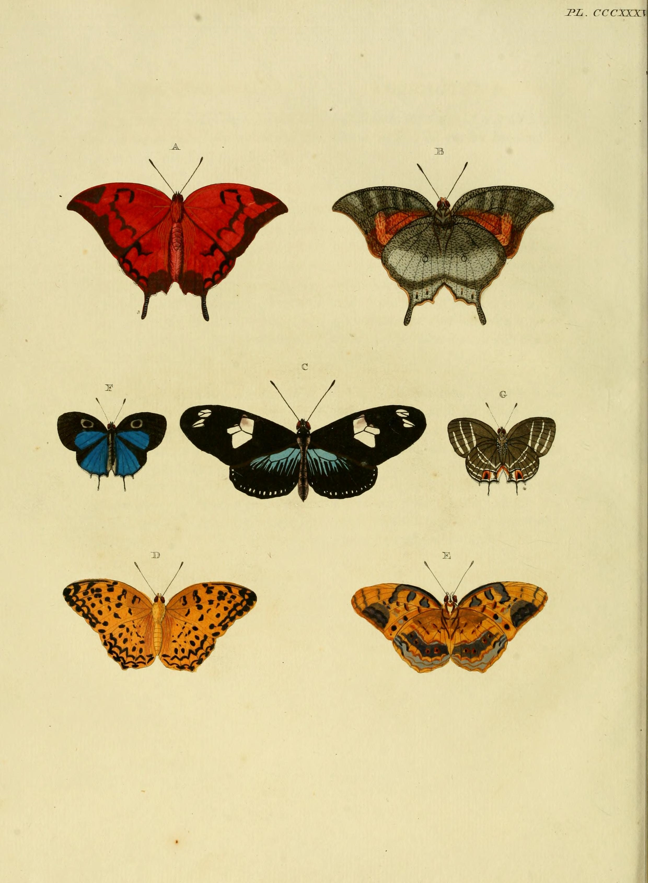 Plate CCCXXXVII Warning: some taxa/names may be misidentified/misapplied or placed in a different genus. A, B: "(Papilio) Astianax" ( = Anaea troglodyta astina (Fabricius, 1793), see Funet). Photos at Butterflies of America. C: "(Papilio) Doris" ( = Laparus doris doris (C. Linnaeus, 1771), see Funet. Photos at Butterflies of America. Female. Male on pl. 177 F as "(Papilio) Amathusia". Also on pl. 65 A, B as "(Papilio) Quirina" . Not in register. D, E: "(Papilio) Columbino" ( = Euptoieta hegesia (Cramer, [1779]), iconotype?), see Funet. Photos at Butterflies of America. Also on plate 209 E, F as "(Papilio) Hegesia" and on plate 238 A, B as "(Papilio) Columbina". F, G: "(Papilio) Cupentus" ( = Megathecla cupentus (Stoll, [1781]), iconotype?, see Funet). Photos at Butterflies of Sangay National Park (Ecuador).